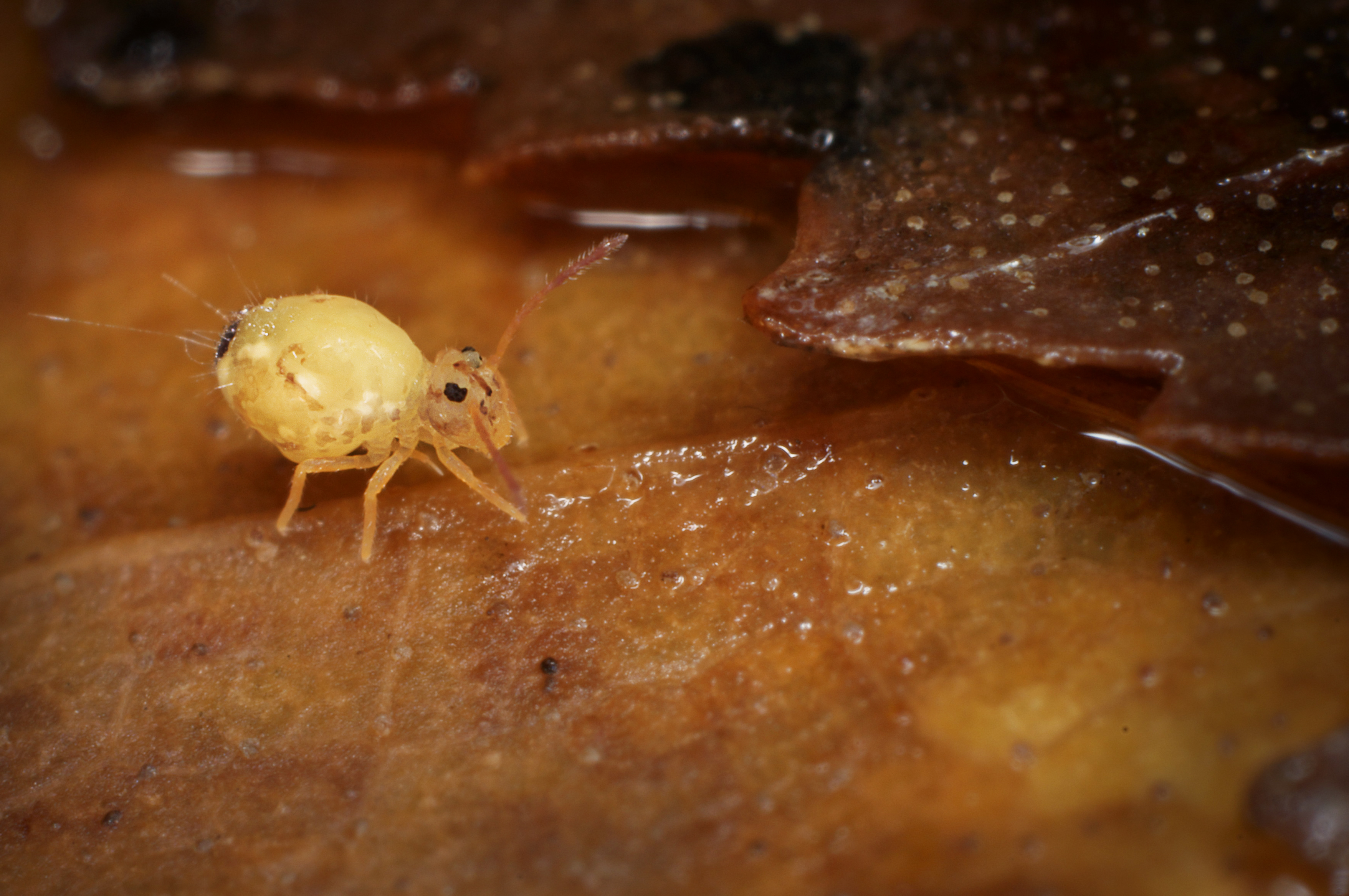 Globular springtail Sminthuridae sp. on leaf litter. Original file can be obtained from Tim Evison via